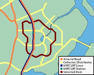 Yishun Ring Road Version 1